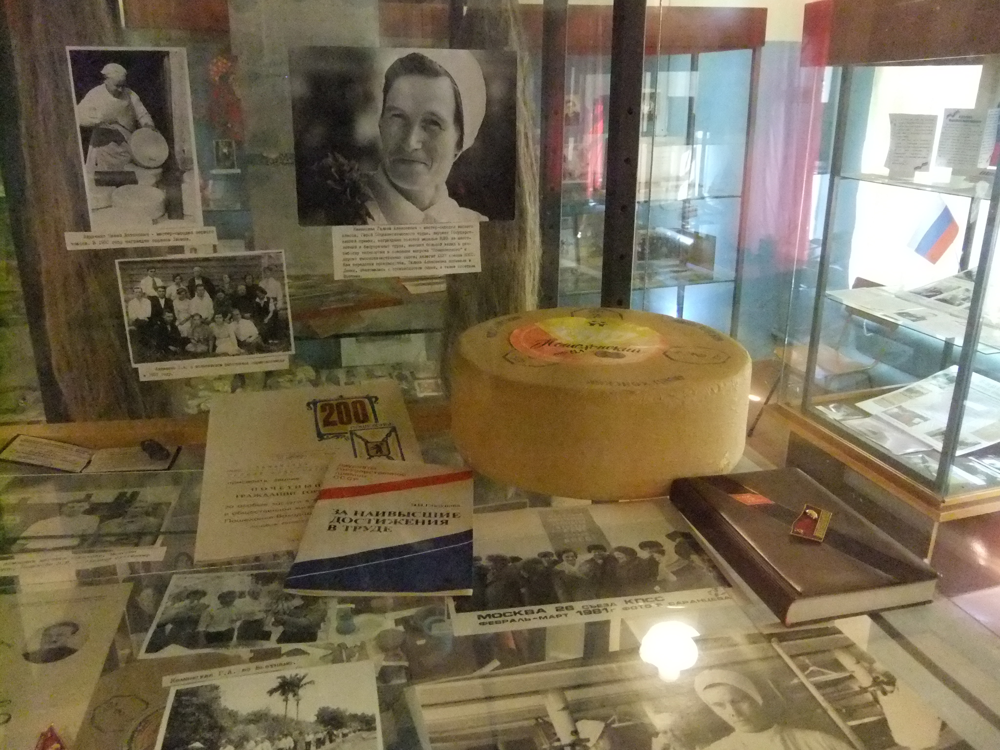 Poshekhonye museum. A [mockup of a] head of "Poshekhonsky Cheese", the famous local product.